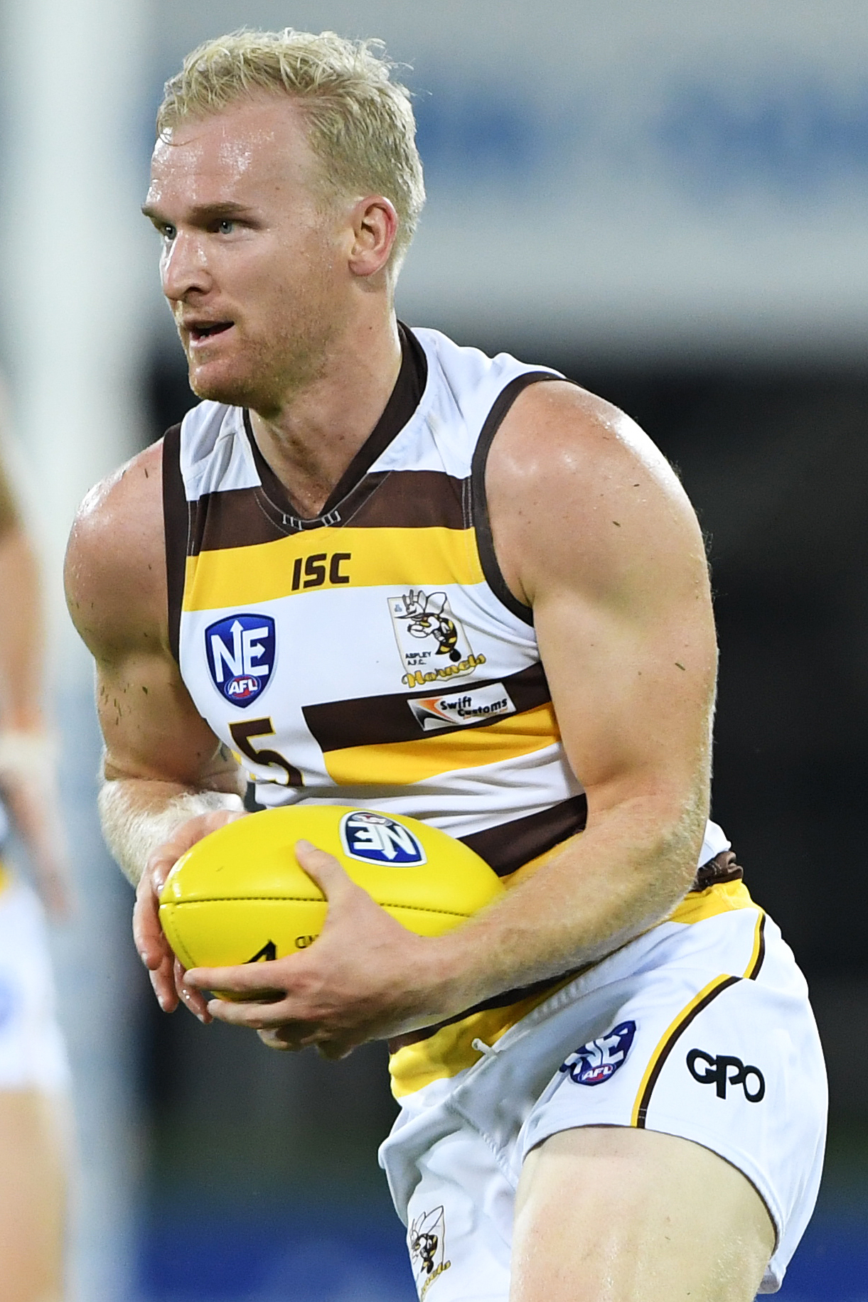 Ben Warren of Aspley during the 2018 NEAFL round 17 match between NT Thunder and Canberra at TIO Stadium on 28 July 2018 in Darwin, Northern Territory.